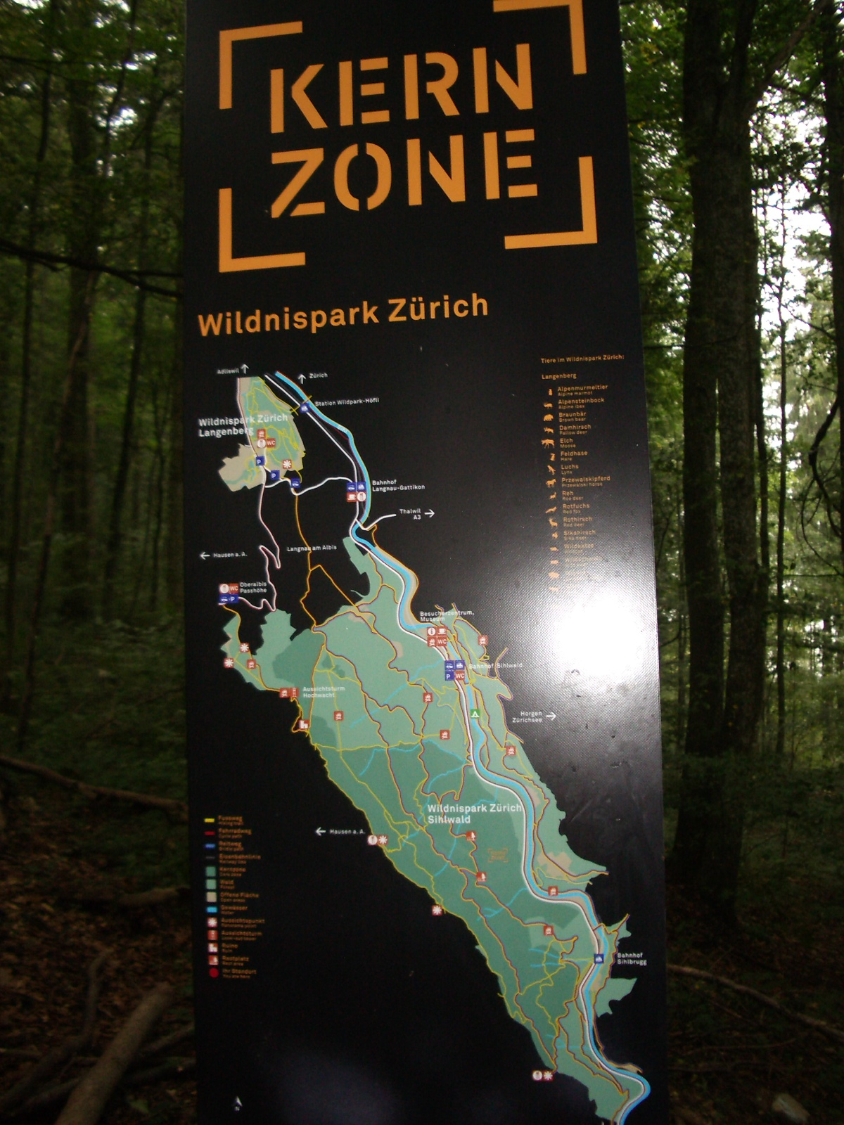 Wilderness park Zurich, Sihltal ZH, Switzerland